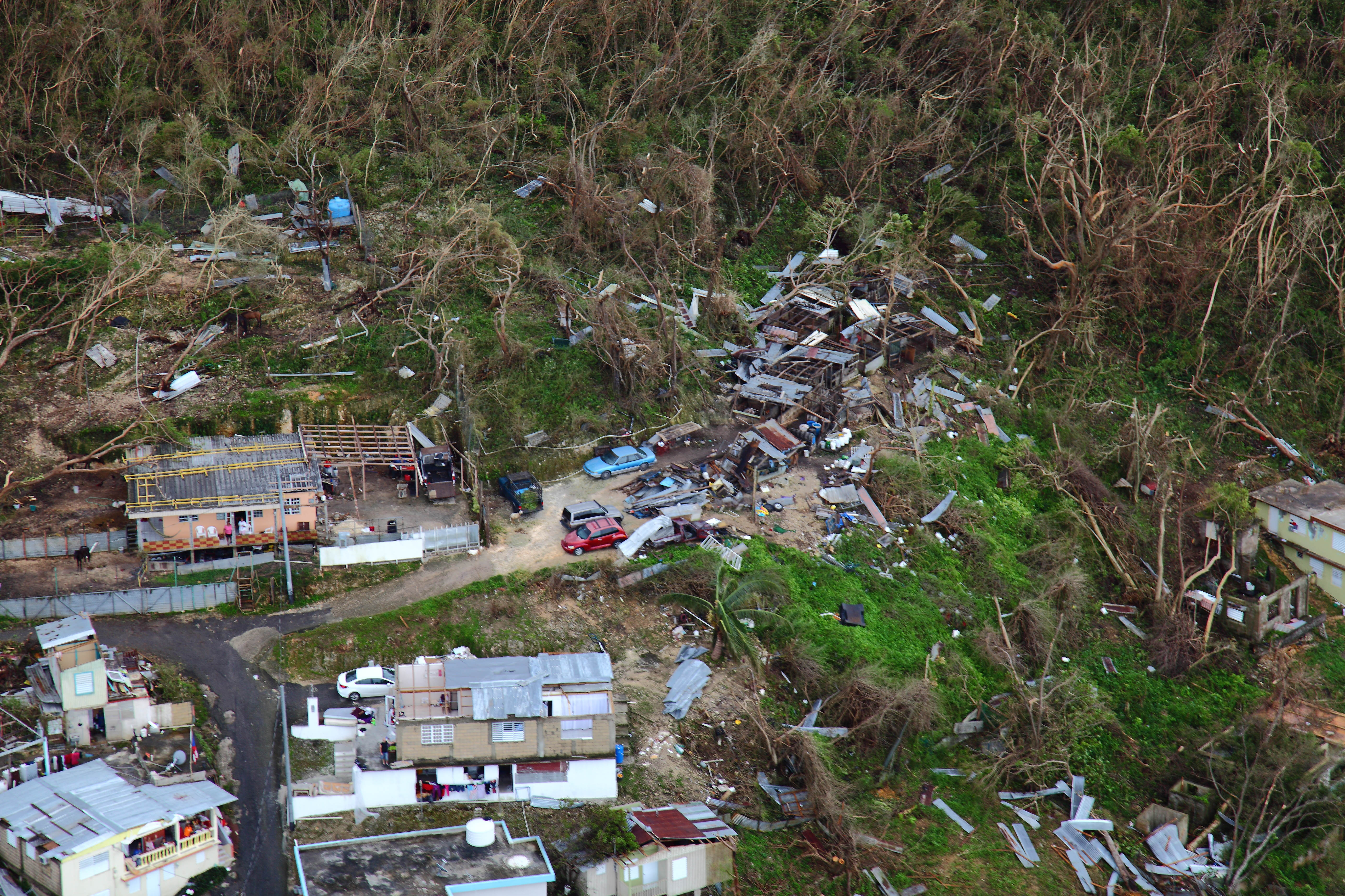 Homes lay in ruin as seen from a U.S. Customs and Border Protection, Air and Marine Operations, Black Hawk during a flyover of Puerto Rico after Hurricane Maria September 23, 2017. U.S. Customs and Border Protection photo by Kris Grogan